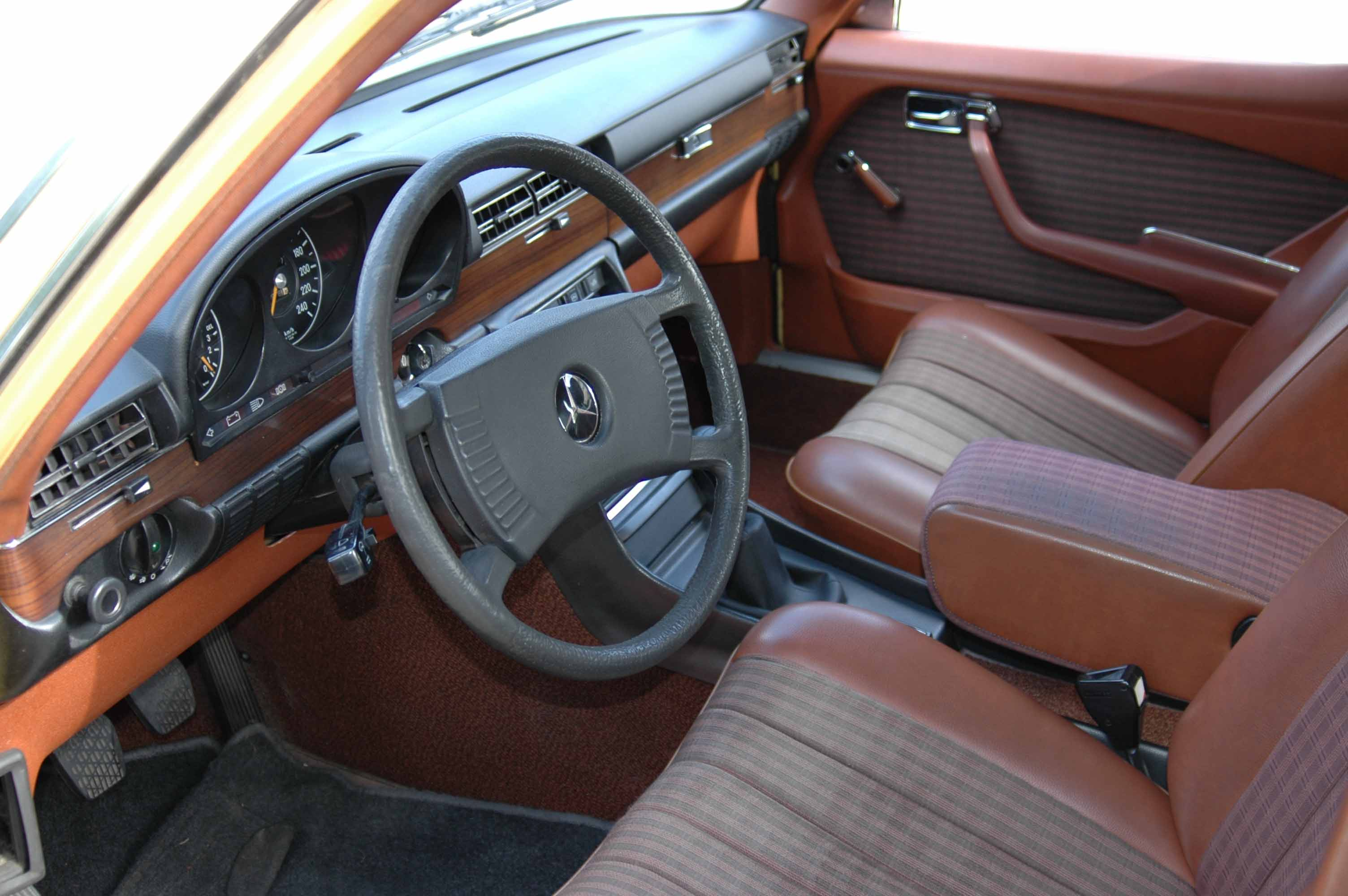 Mercedes-Benz W116 1975 Brown Interior 350SE